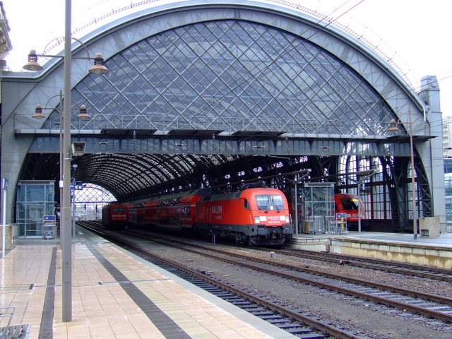 Dresden Hauptbahnhof (Dresden Central railway station)